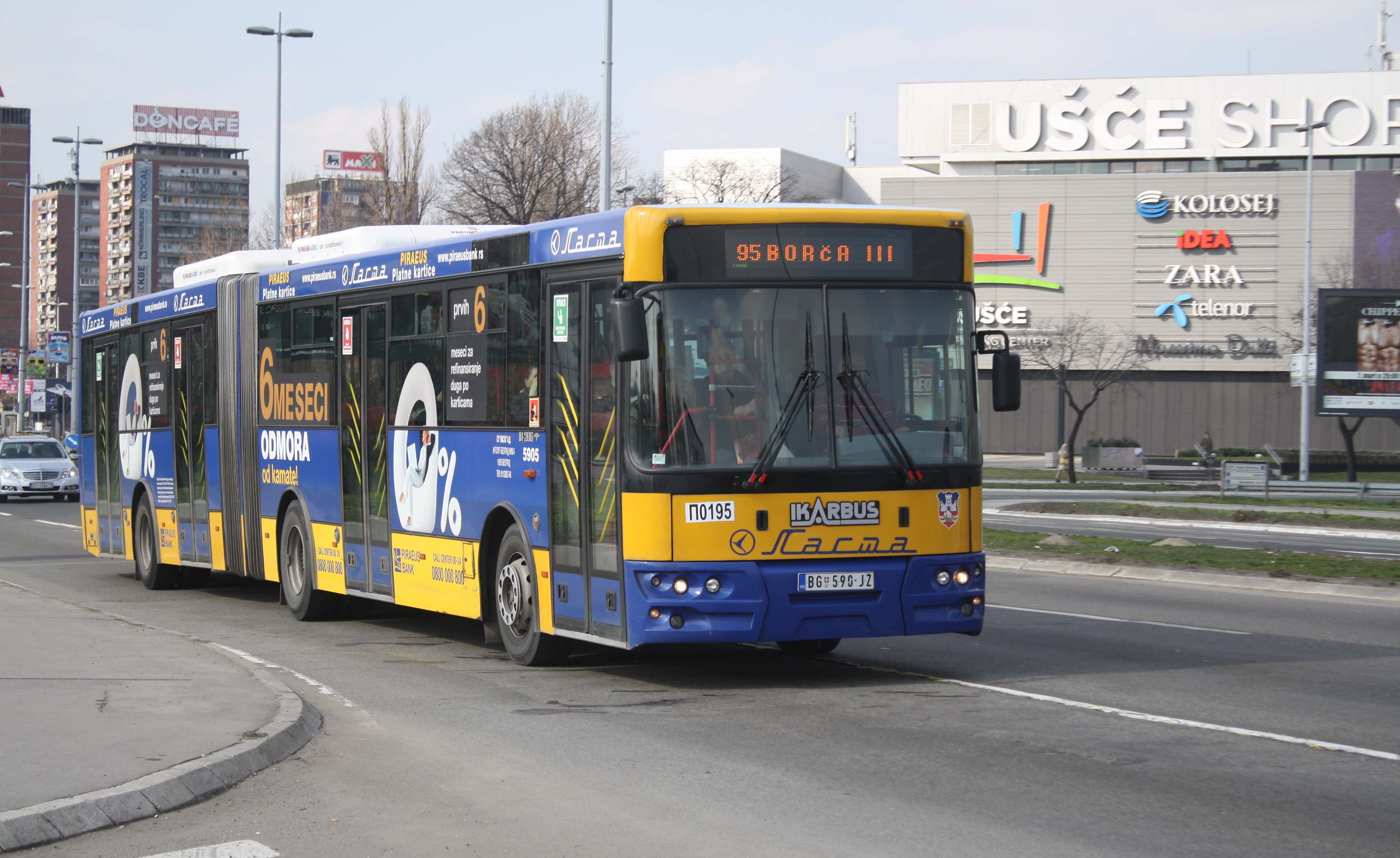 Ikarbus IK 206 city bus of Lasta Beograd bus operator near Ušće shoping mall.